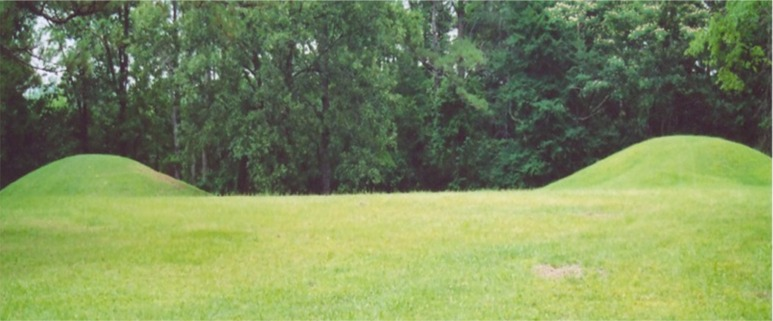 Two Mounds from the Bynum Mounds site near the Natchez Trace Parkway in Mississippi. The complex of six burial mounds was in use during the Miller 1 and Miller 2 phases of the Miller culture and were built between 100 BCE and 100 CE.